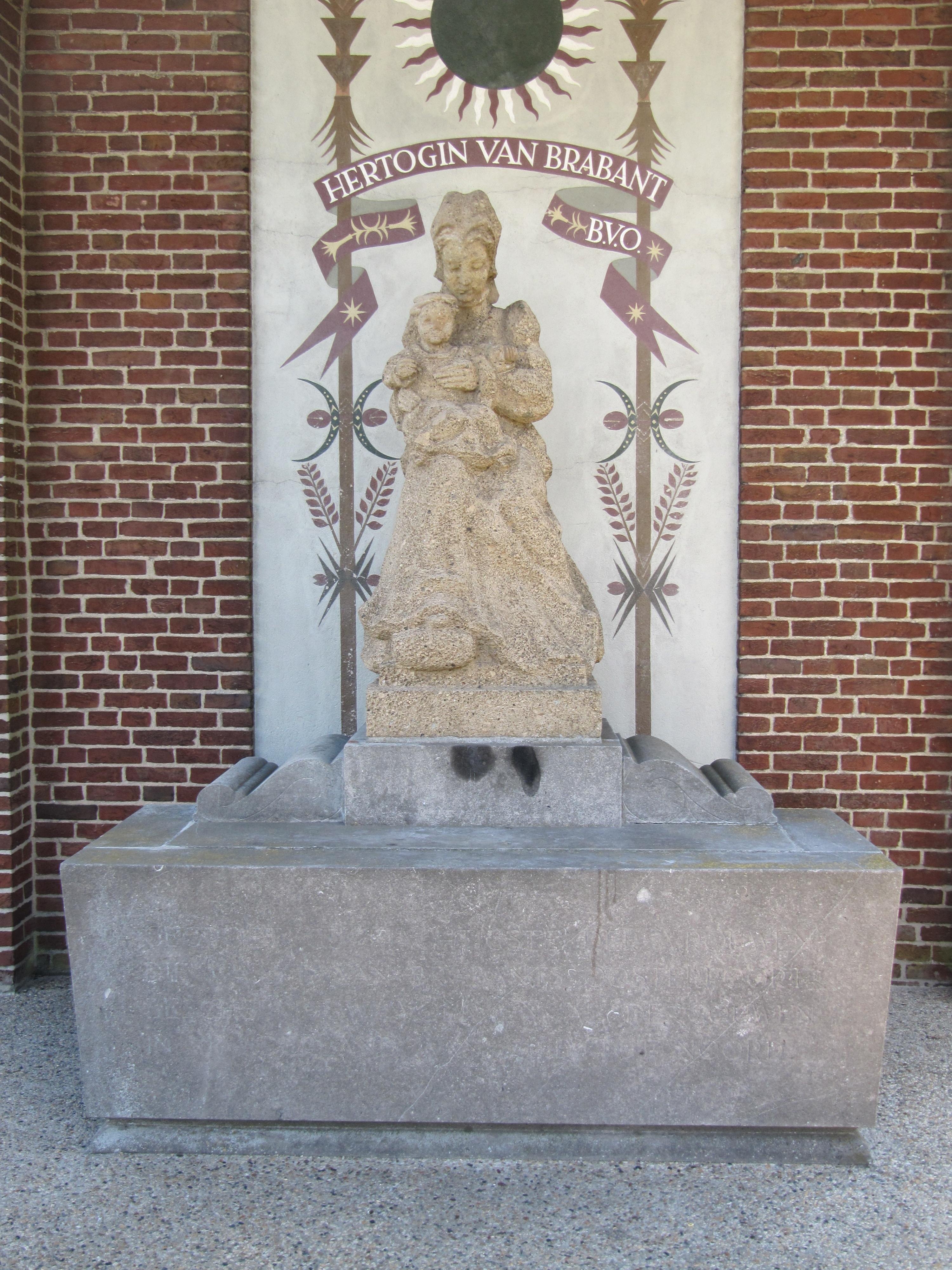 Statue , a Madonna with child in the chapel at the corner of the Arnoud van Gelderweg and the Sint Elisabethstraat in Grave, The Netherlands